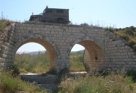 train bridge in Samaria